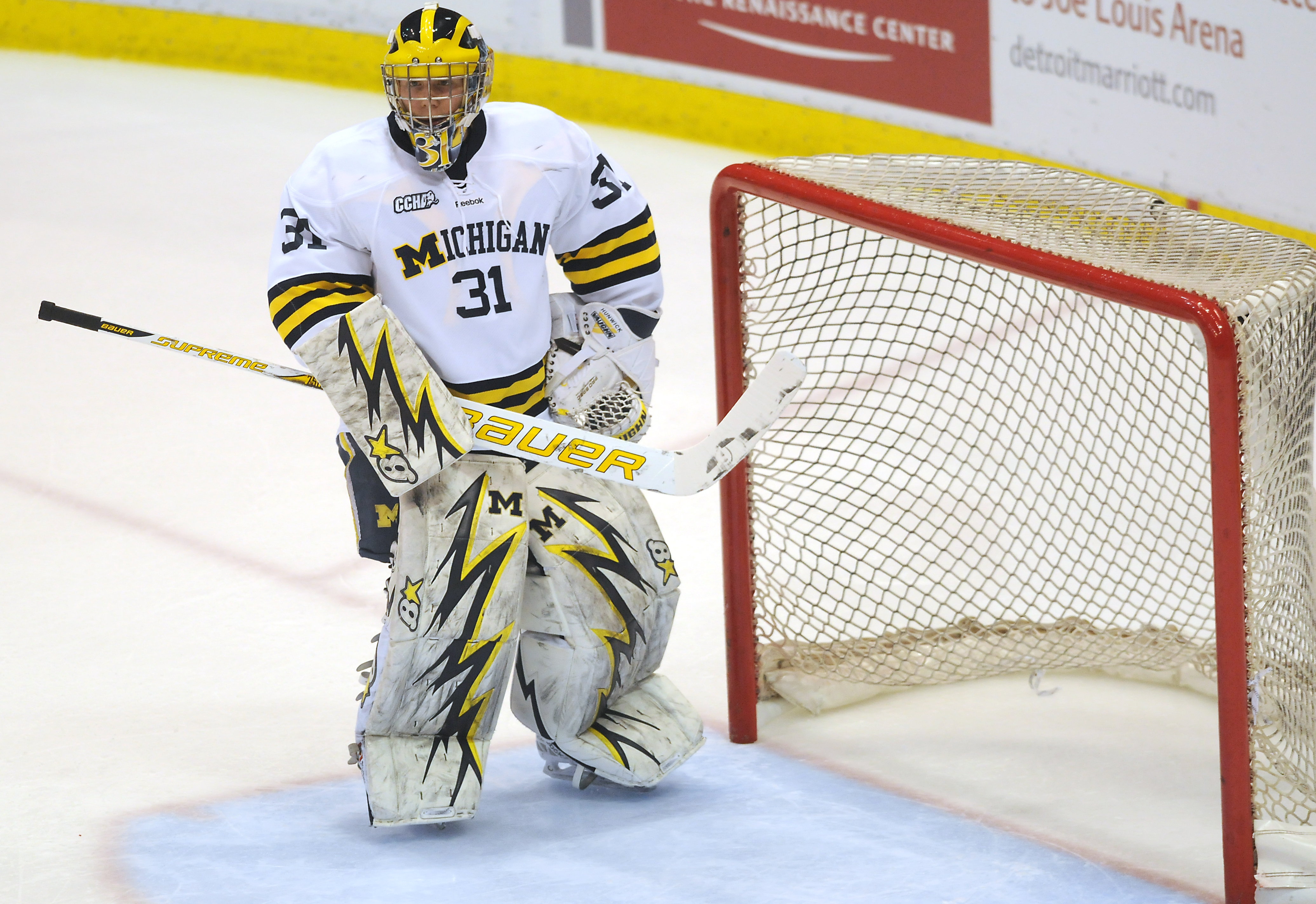 Shawn Hunwick (31) - University of Michigan (ADAM GLANZMAN/Daily)